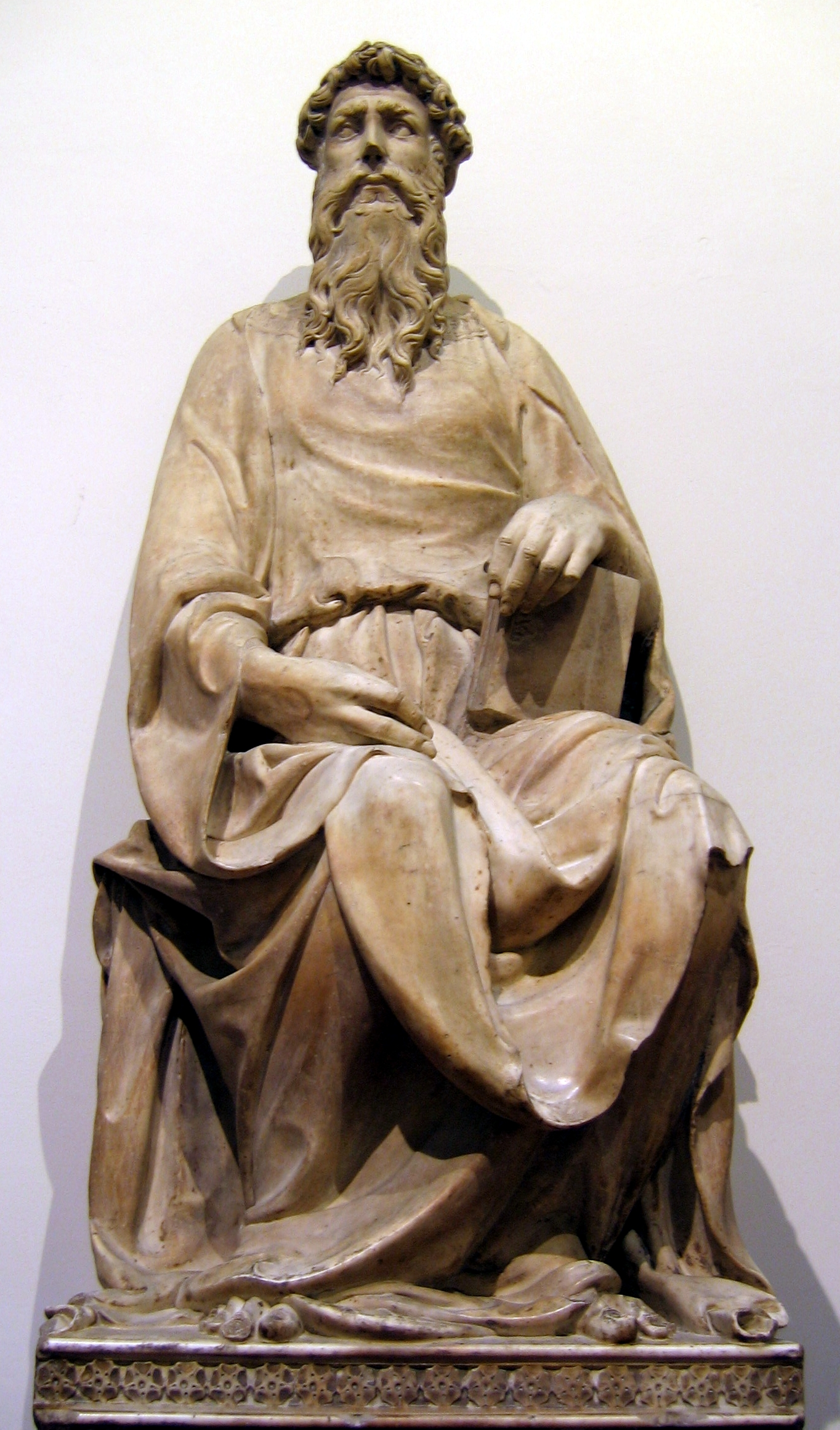 1408-1415 "Museo del Opera del Duomo" (since 1936), till the removal 1537 with other Evangelists on the outside of the Kathedral "Santa Maria del Fiore"; Camera: Canon Powershot A95